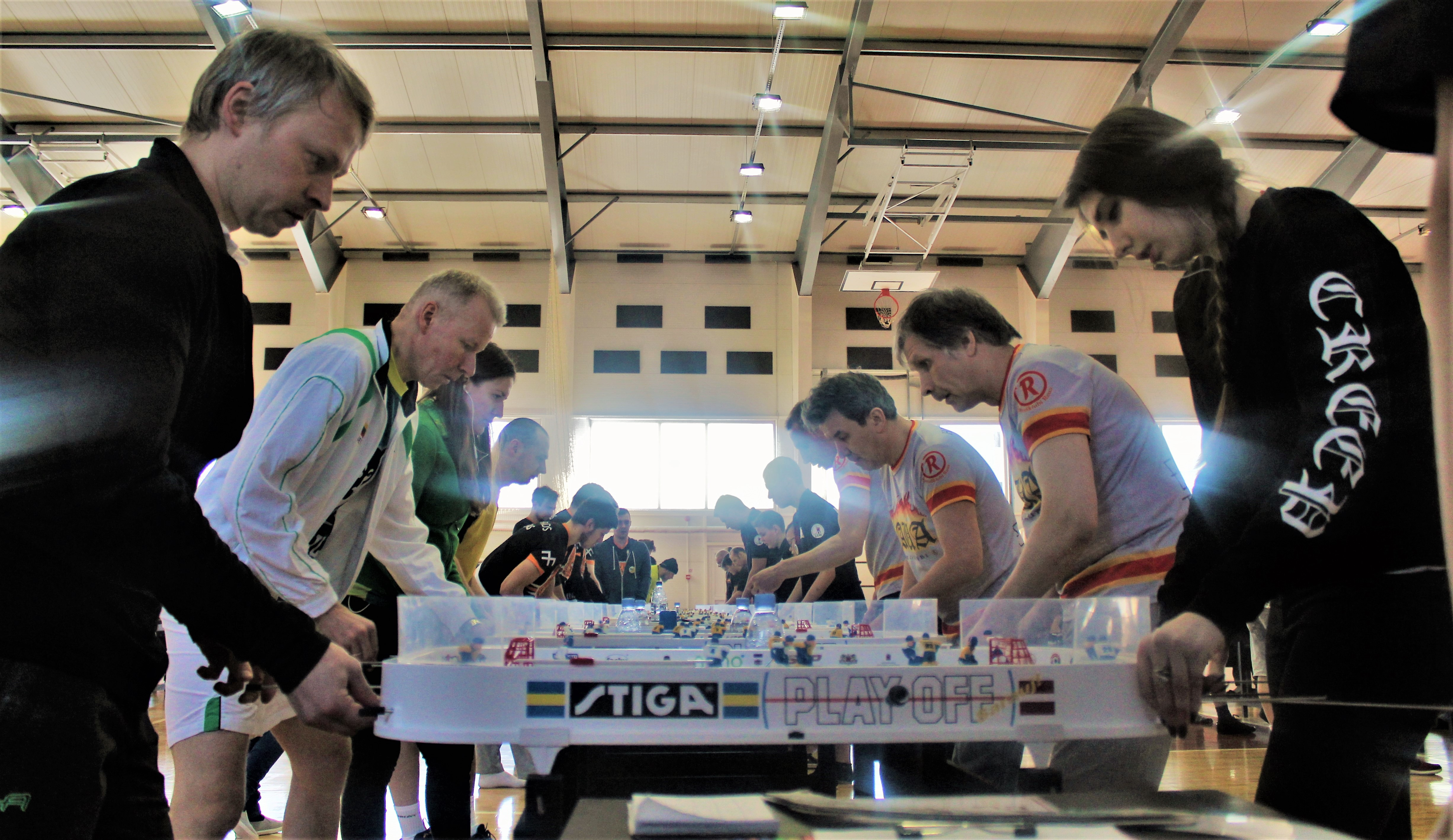 World Clubs Championship in Jēkabpils - 2018. THC Vilnius (LT, left) - SK Raua (EE).